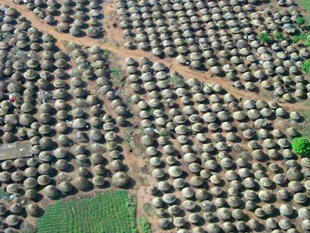 Original caption states "The tightly packed Kitgum camp for IDP-internally displaced persons viewed from above." Kitgum District is in the Northern Region of Uganda.